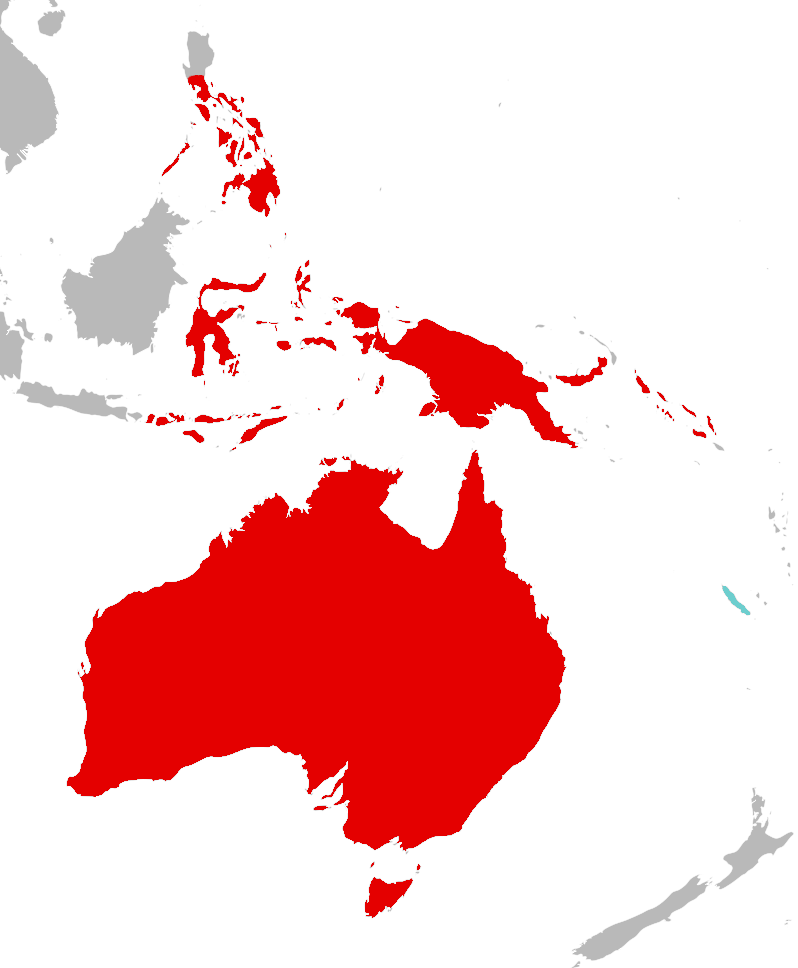 Distribution of cockatoos in southeastern Asia and Australasia, based on Cameron, Matt (2008) Cockatoos (1st ed.), Collingwood: CSIRO Publishing, pp. p. 51 ISBN: 0-643092-32-7. .